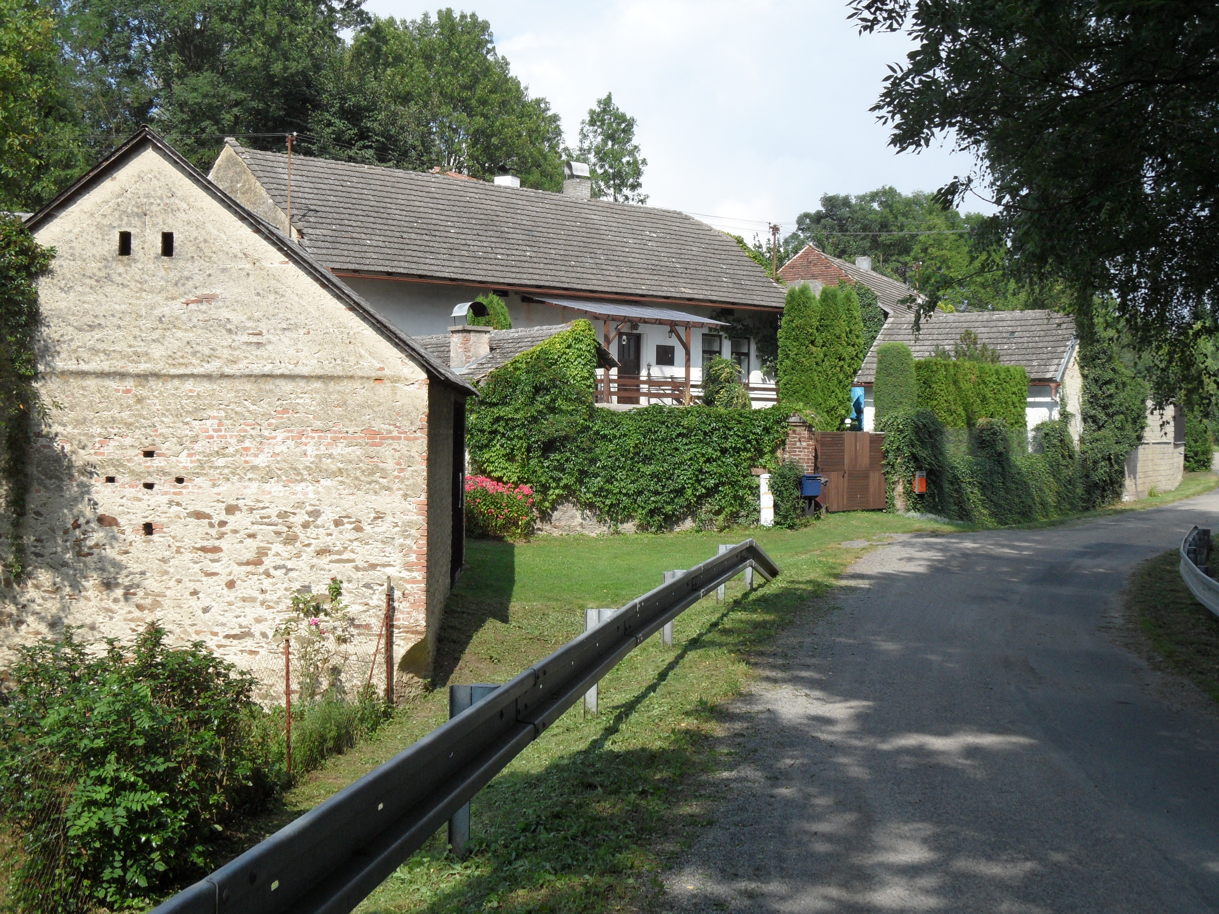 Nová Lhota (Vidice) A. Houses along Bend, Kutná Hora District, the Czech Republic.